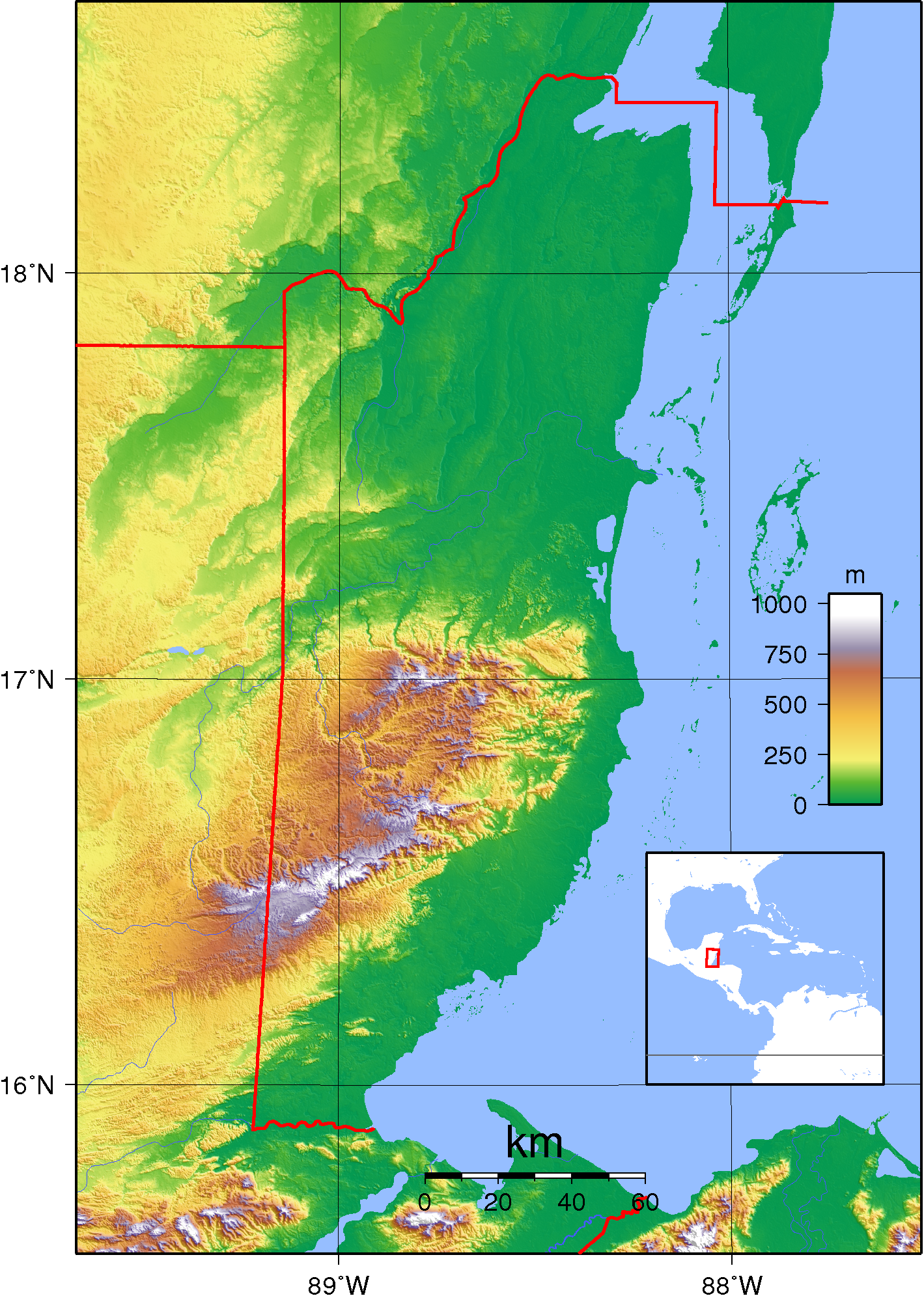 Topographic map of Belize. Created with GMT from SRTM data.